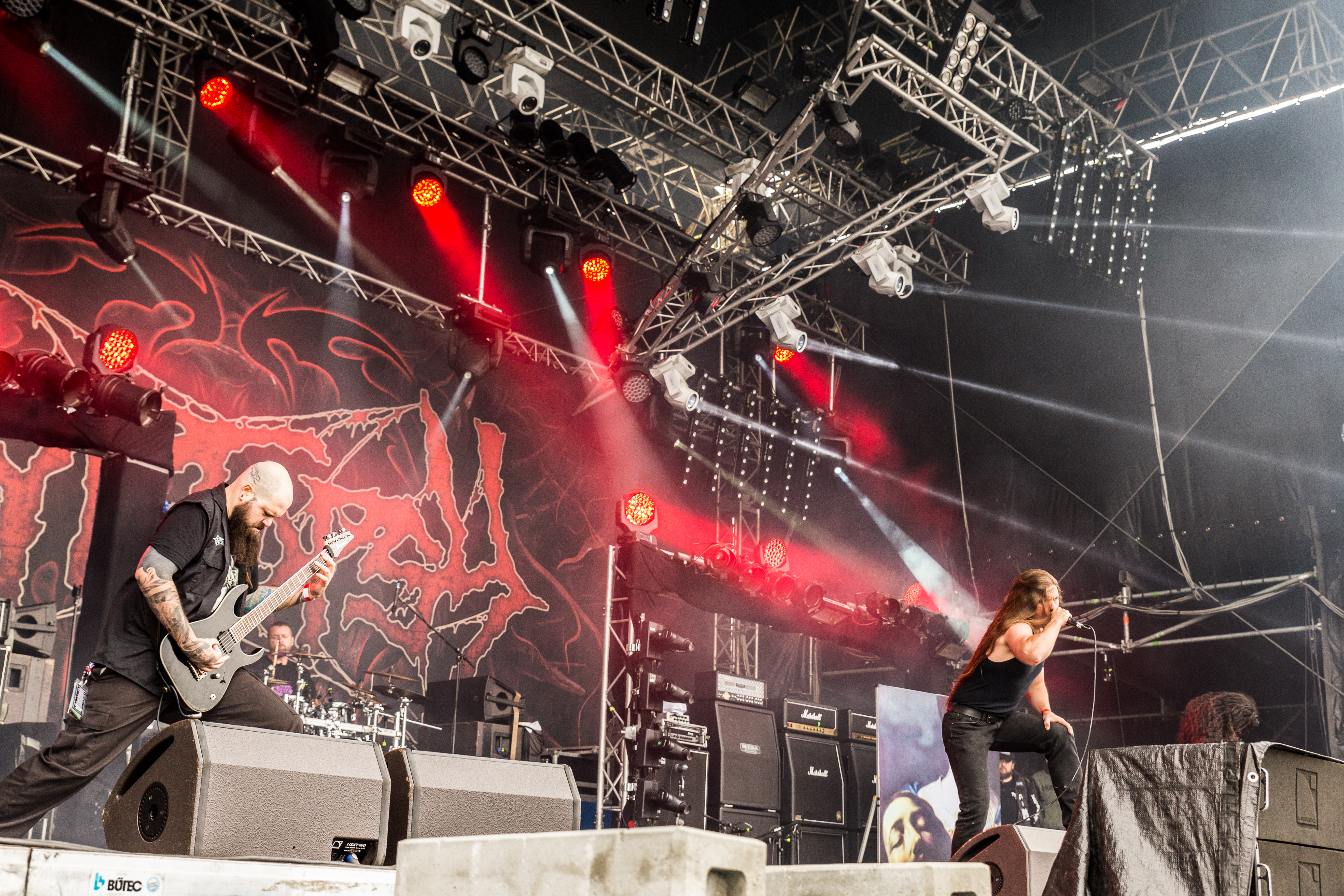 The Canadian technical death metal band Cryptopsy at the Party.San Metal Open Air 2017 in Obermehler-Schlotheim/Germany.